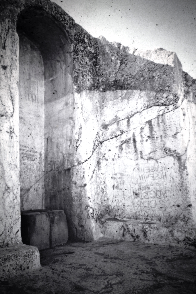 I took these photos on a holiday in Van in 1973